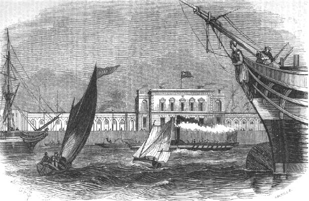 This is am image of Blackwall railway station when it opened as the terminus of the London and Blackwall Railway.